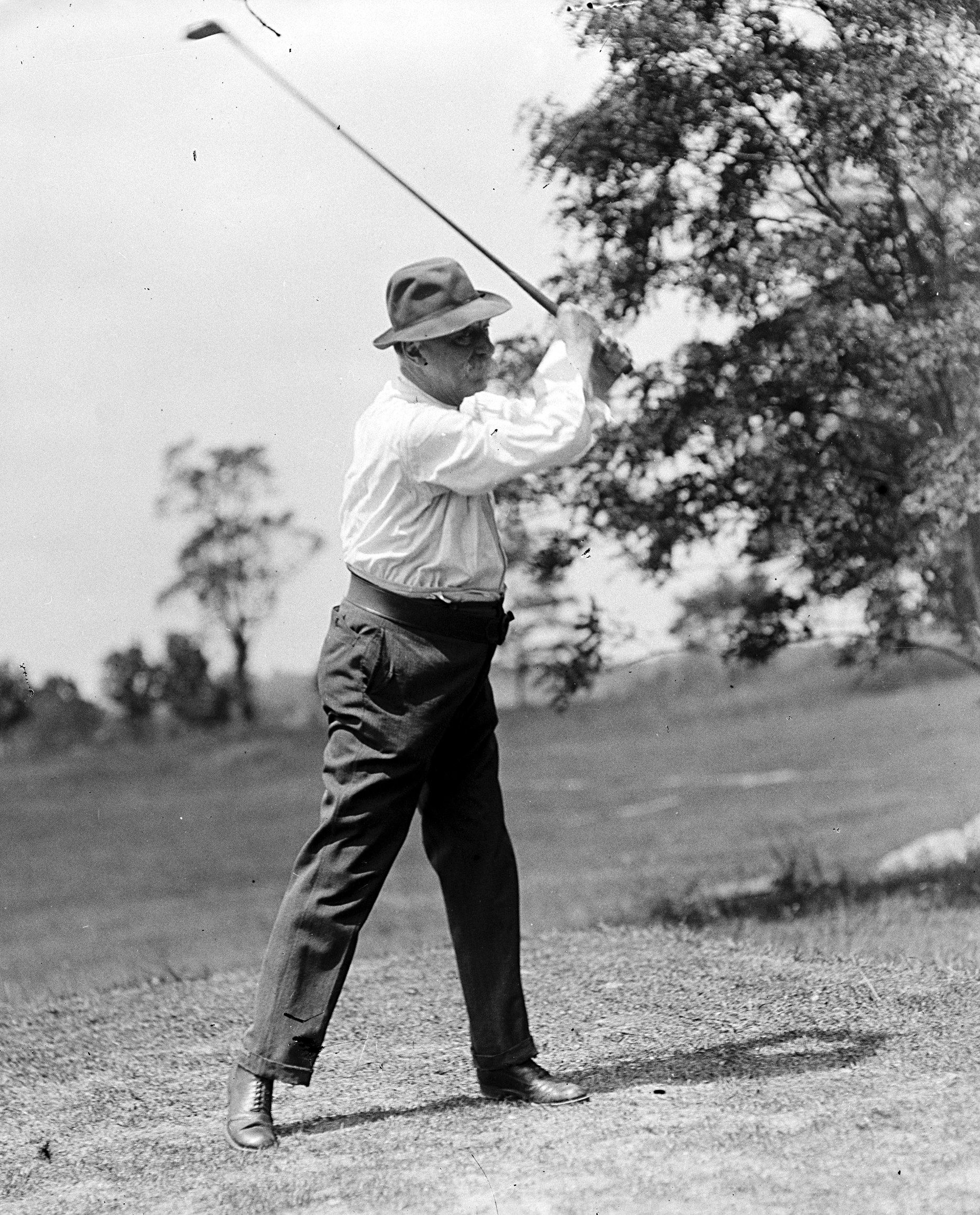 John Dalzell, US Representative from Pennsylvania, playing Golf